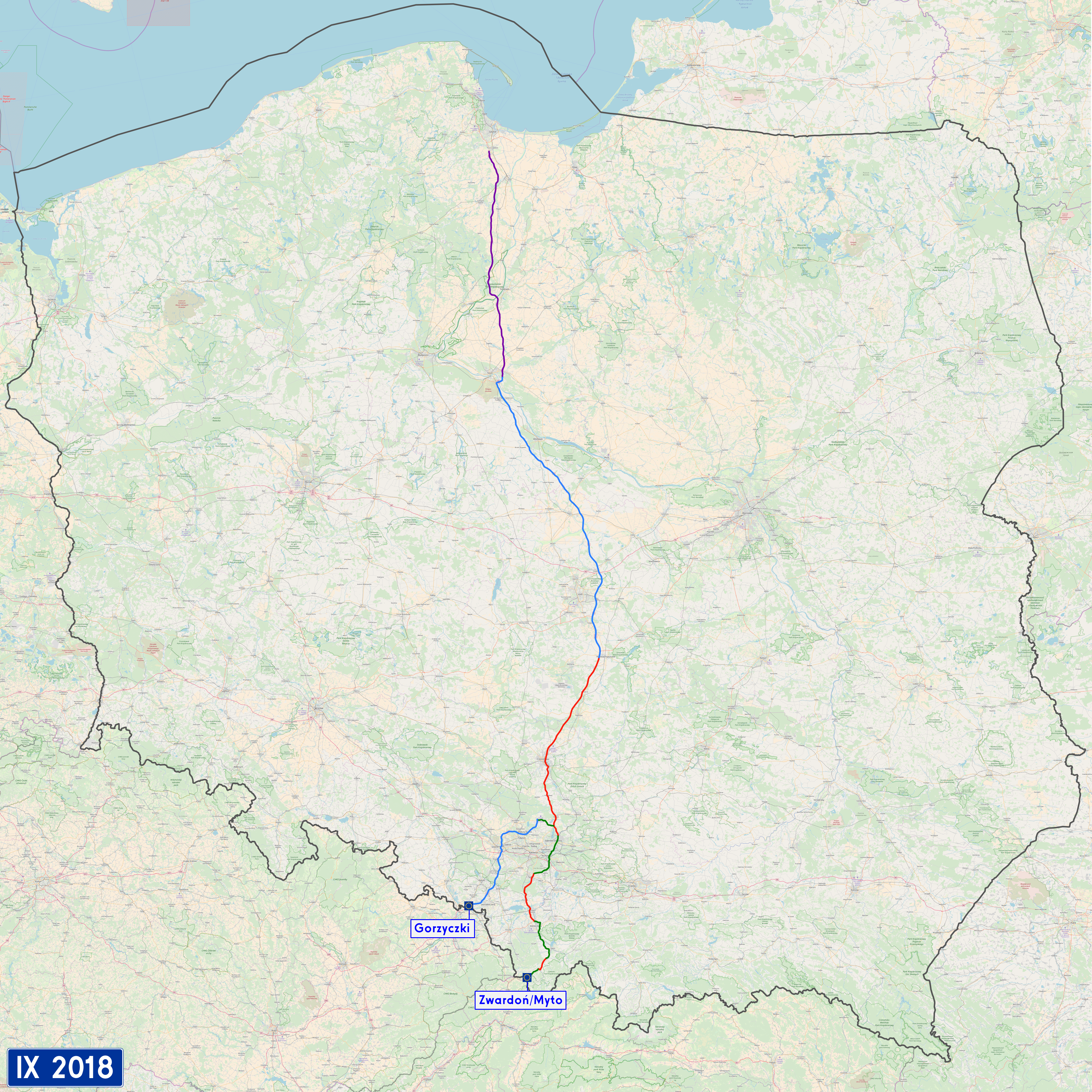 Map of Polish national road 1. Background from OpenStreetMap. National road 1 Expressway S1 Motorway A1 (toll) Motorway A1 (free) This map is in PNG format, because export a map from OSM with this zoom scale to SVG format produces over 15 MB file, which is difficult to edit ("memory eating" by graphics software).